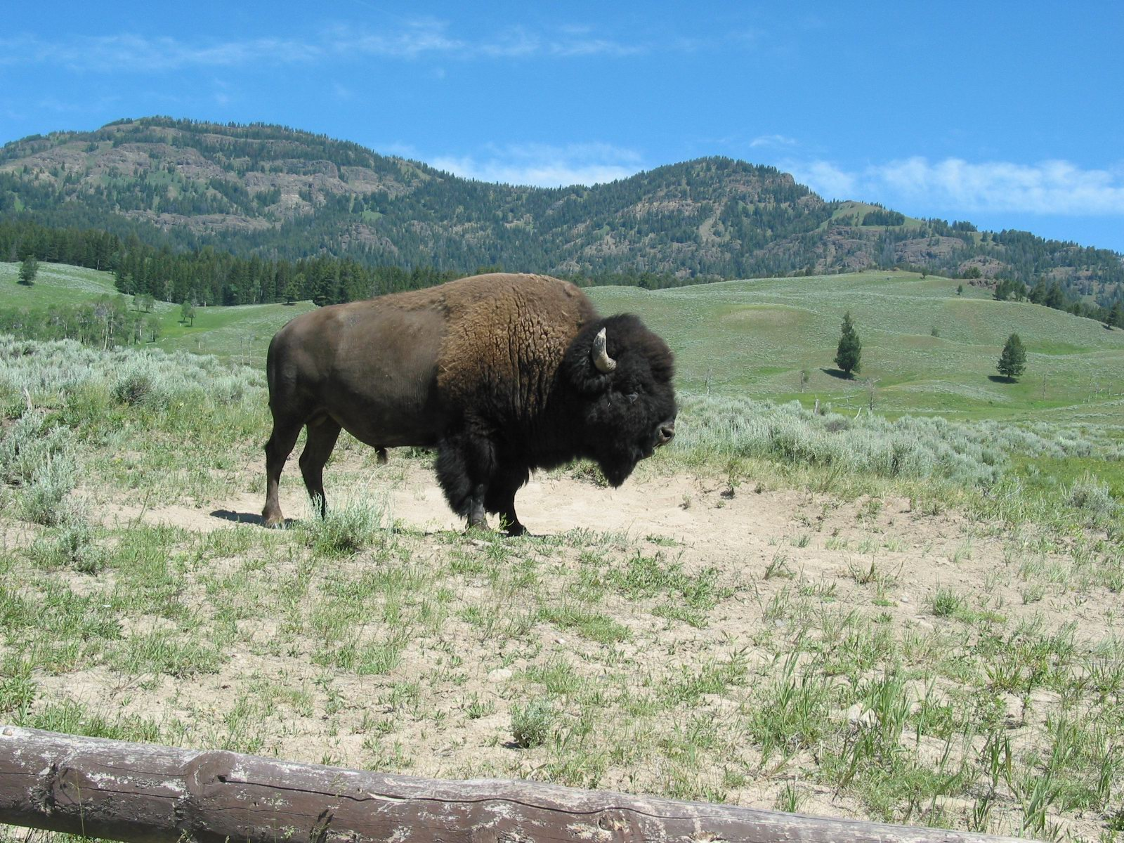 This is a photograph of a Buffalo| in Yellowstone National Park. This picture was taken by me Boris D.(BorisFromStockdale)